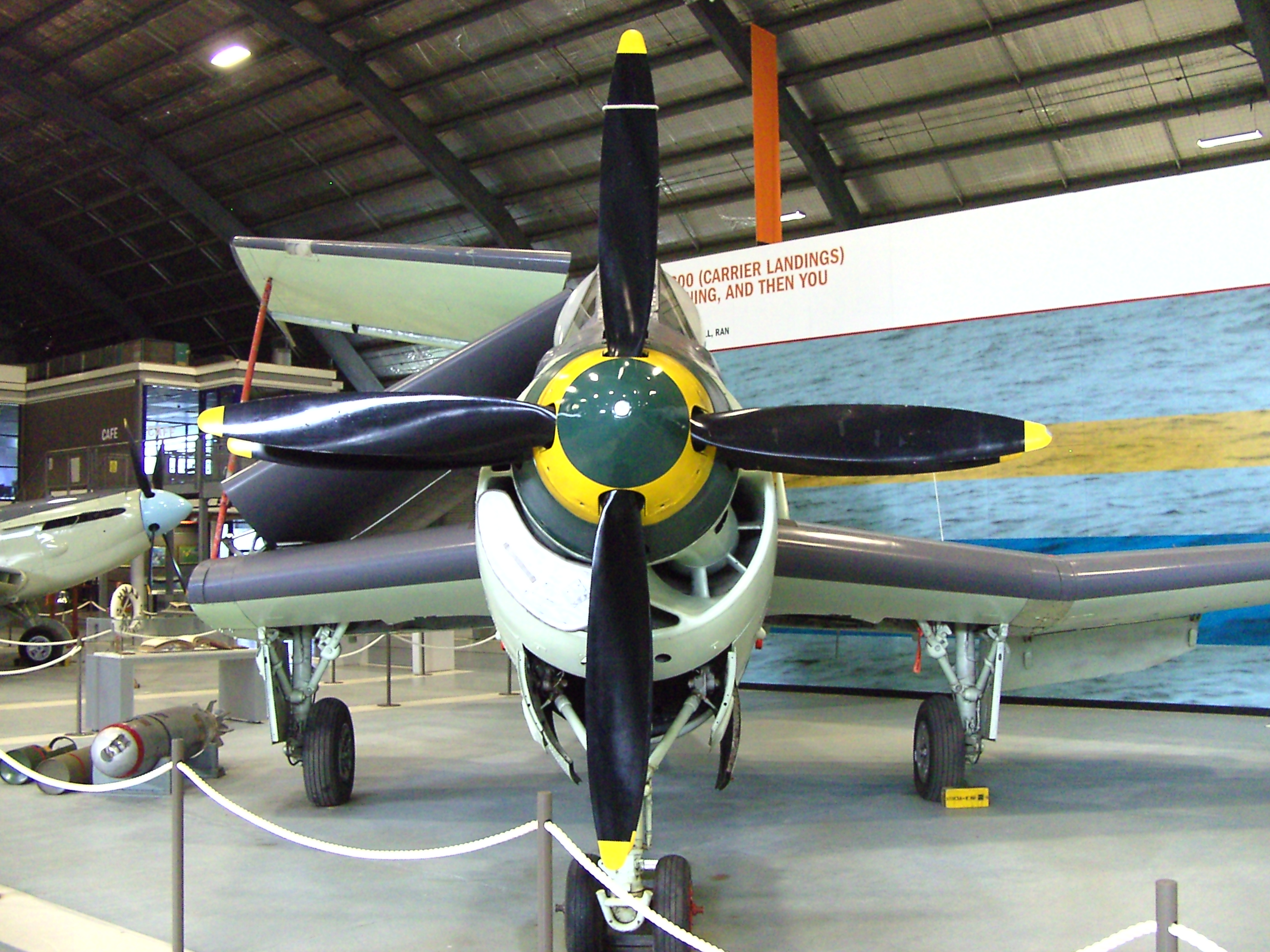 Fairey Gannet 846, Fleet Air Arm Museum (Australia), HMAS Albatross